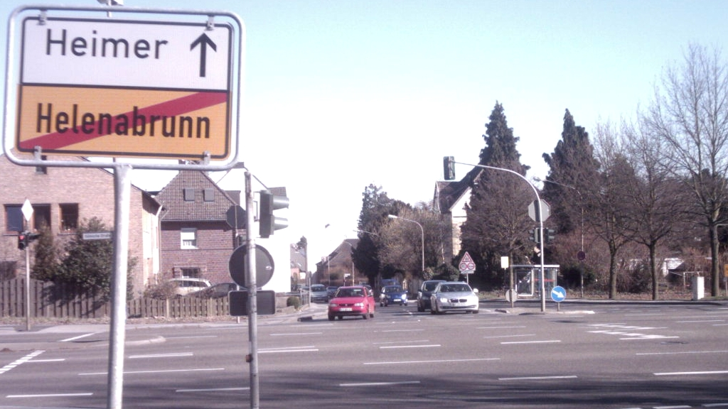 City Limit Sign, Helenabrunn, Viersen, Germany